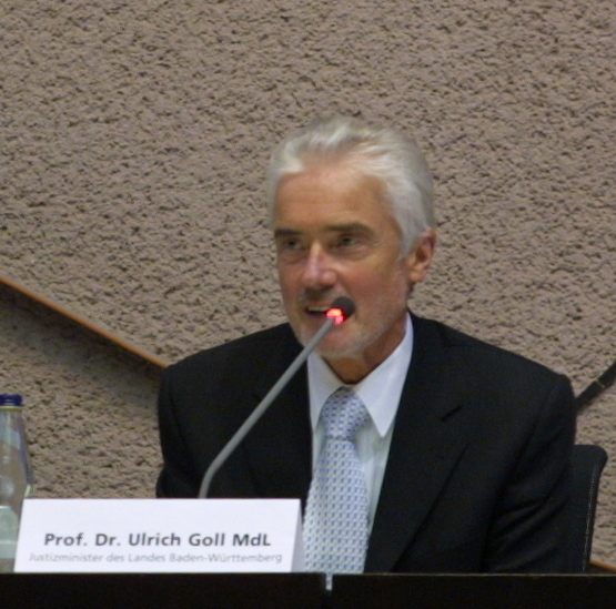 Ulrich Goll, german politician and justice minister of Baden-Württemberg Image taken on a commemorative event because of the 25th anniversary of the Volkszählungsurteil (see Informational self-determination)